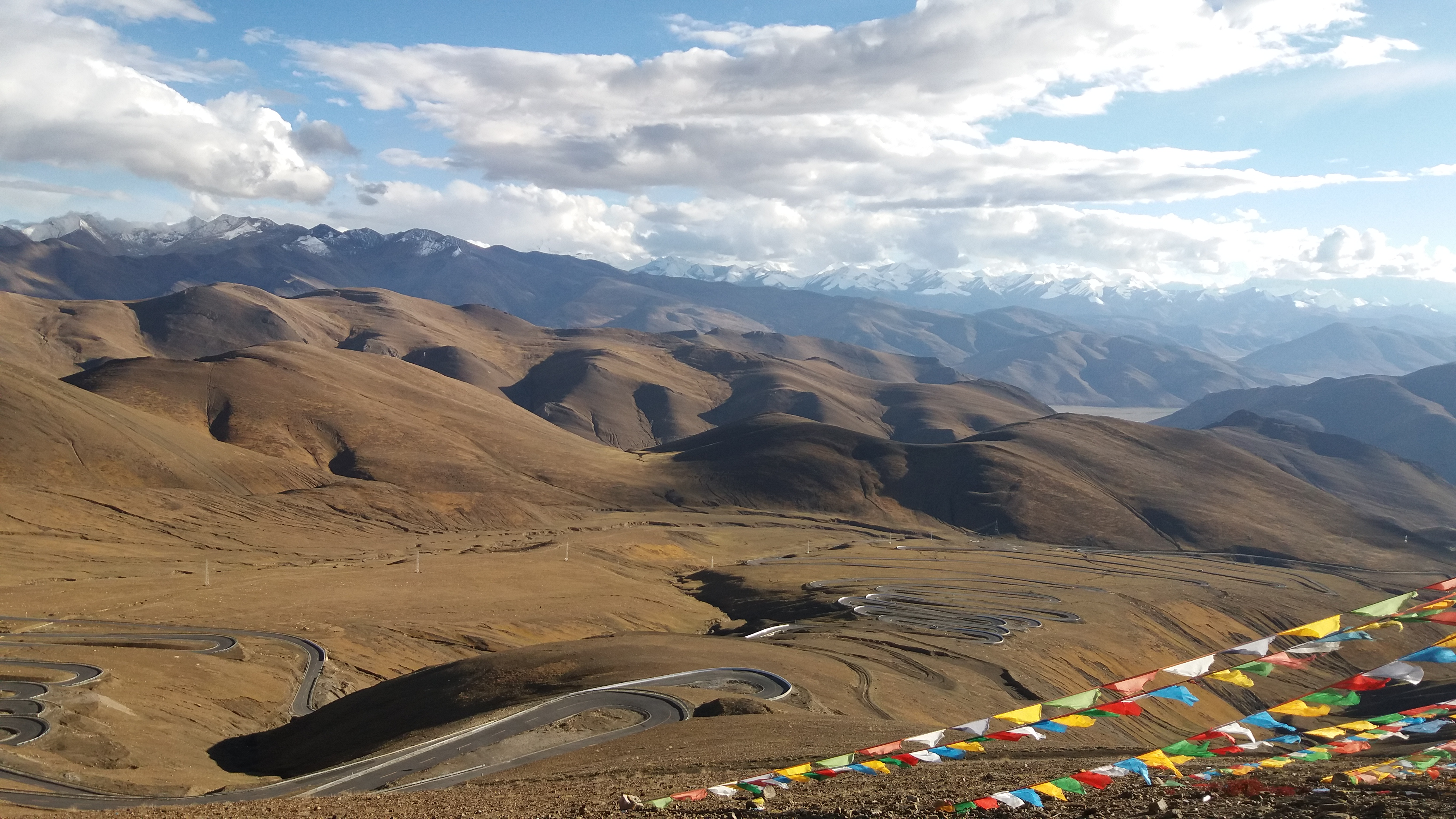 Mount Everest